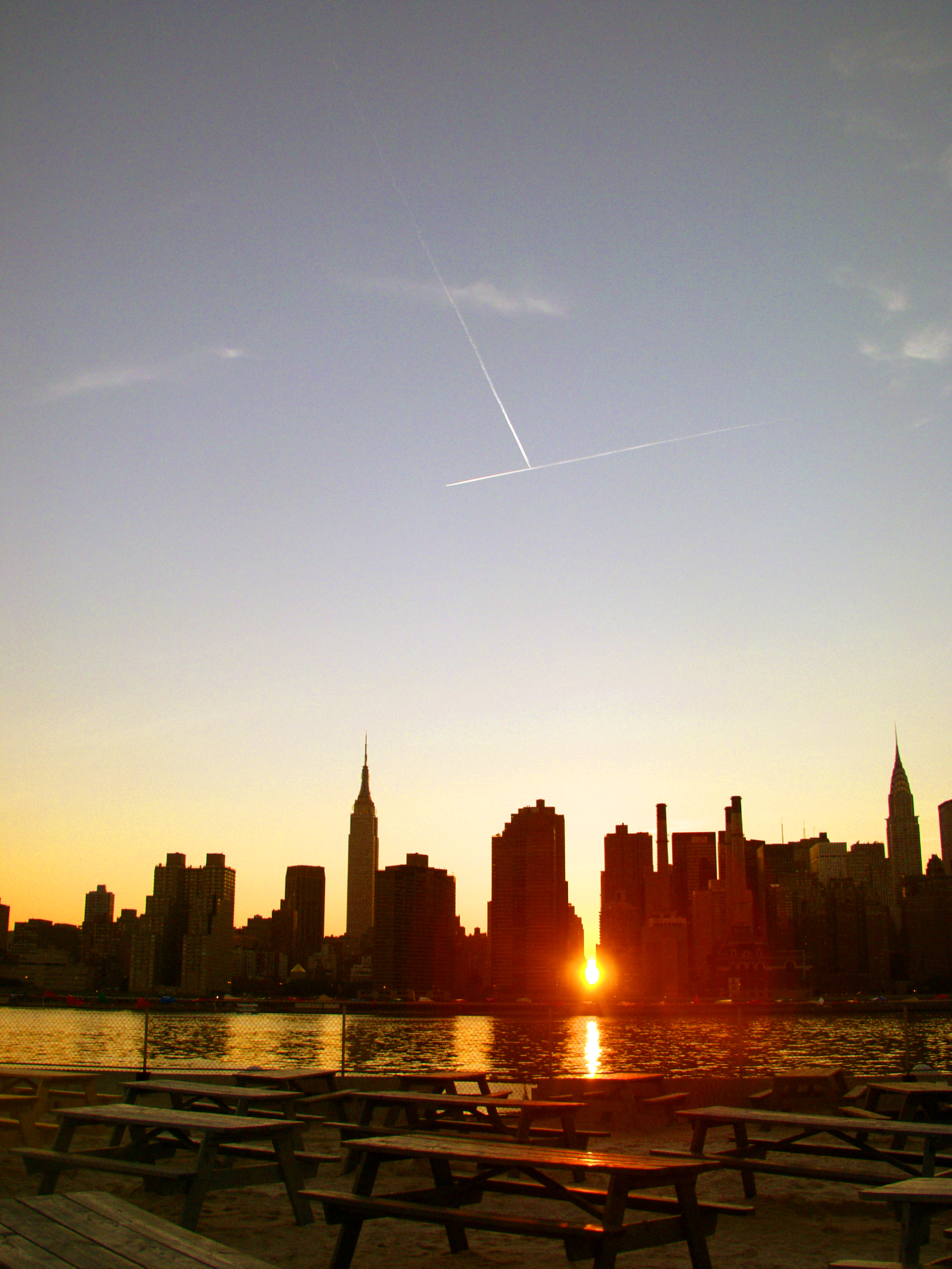 Sun setting on Manhattan (e.g. manhattan henge)